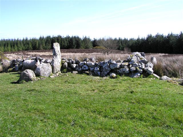 Tomb at Garvagh Pullans It is on the border between Northern Ireland and the Irish Republic.